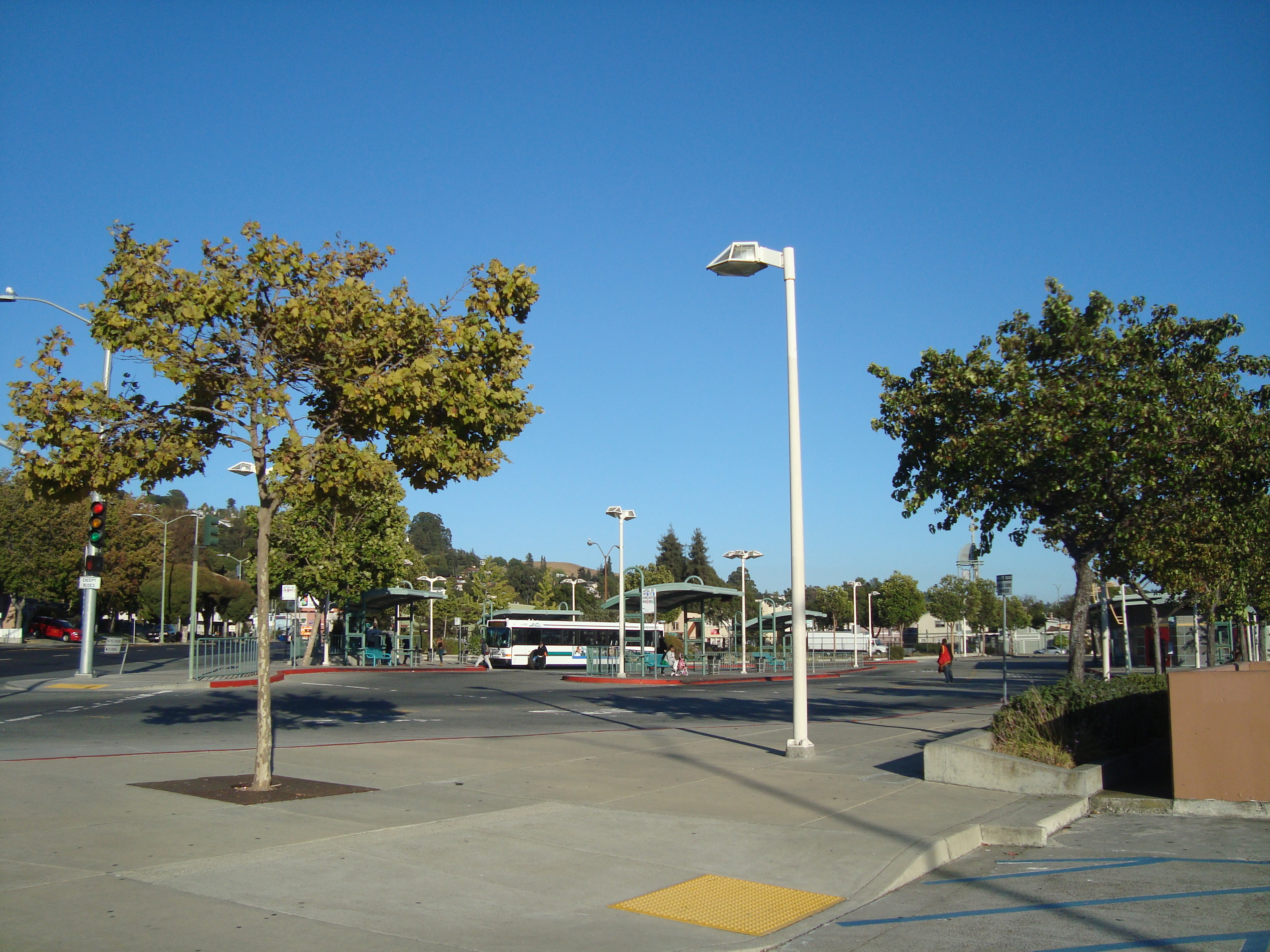 View from the northern end of East Oakland's Eastmont Transit Center in 2014.